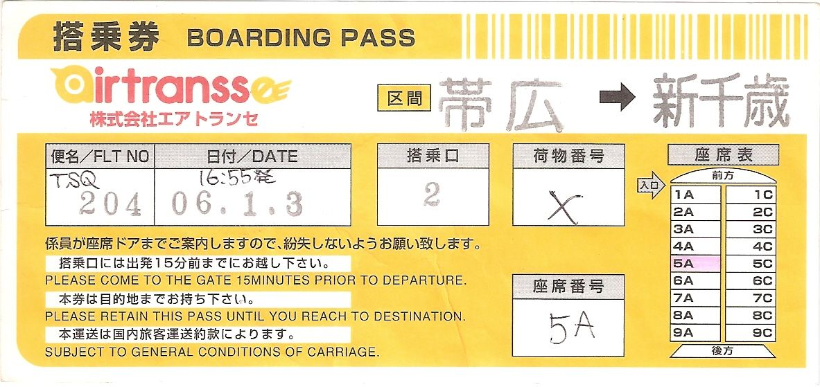 Boarding Pass of Airtransse